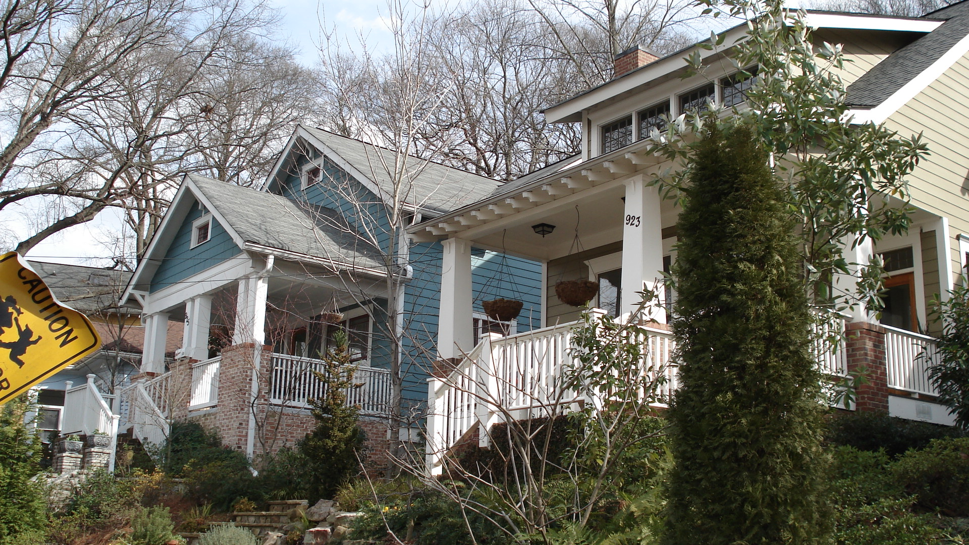 Category:Images of Atlanta, Georgia